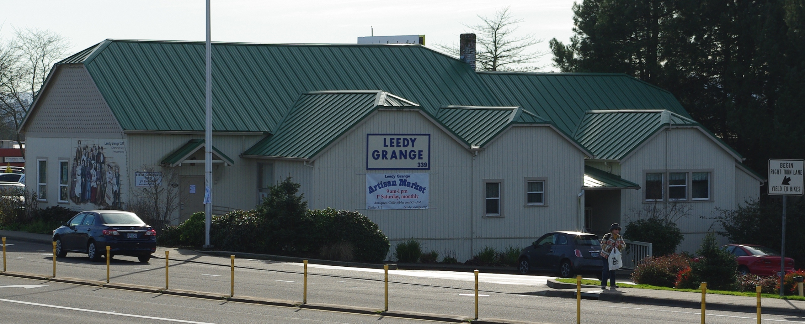 The present-day Leedy Grange #339 building, near the corner of Saltzman and Cornell Roads and near the Cedar Mill Library, was built in 1900 (according to Leedy Grange 1903). It originally housed a Modern Woodmen organization, however in 1913 (1906 according to the Grange) the building was sold to the Leedy Grange, and the second story removed. The monthly Cedar Mill Flea Market is held at the grange the first Saturday of each month. The first Flea Market was held in June 2010. A Cedar Mill Heritage Quilt was created in the summer of 1976 by 15 local women. It detailed various aspects of Cedar Mill history. Former U.S. Senator Maurine Neuberger declared the winner of the quilting competition in September 1976.